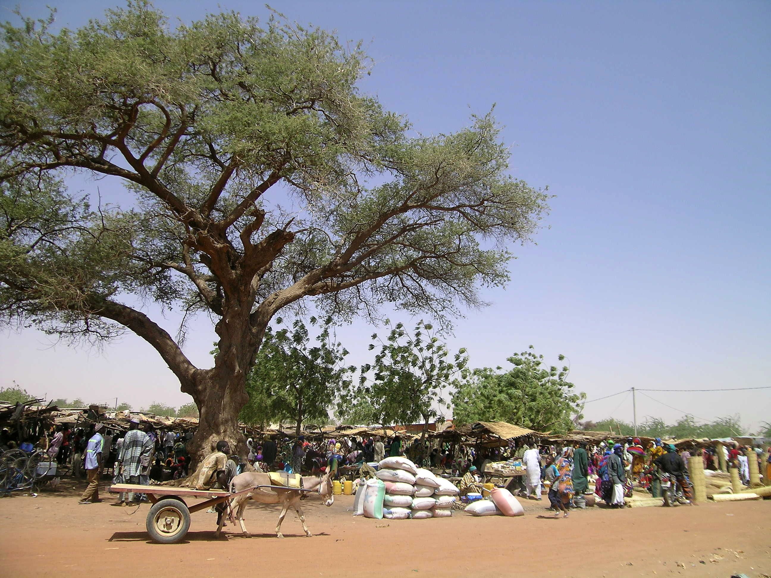 marche de Gorom-Gorom, Burkina Faso